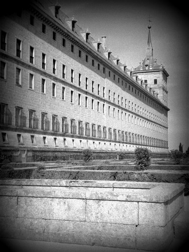 A Black and White Photograph of the Royal Seat of San Lorenzo de El Escorial in Spain